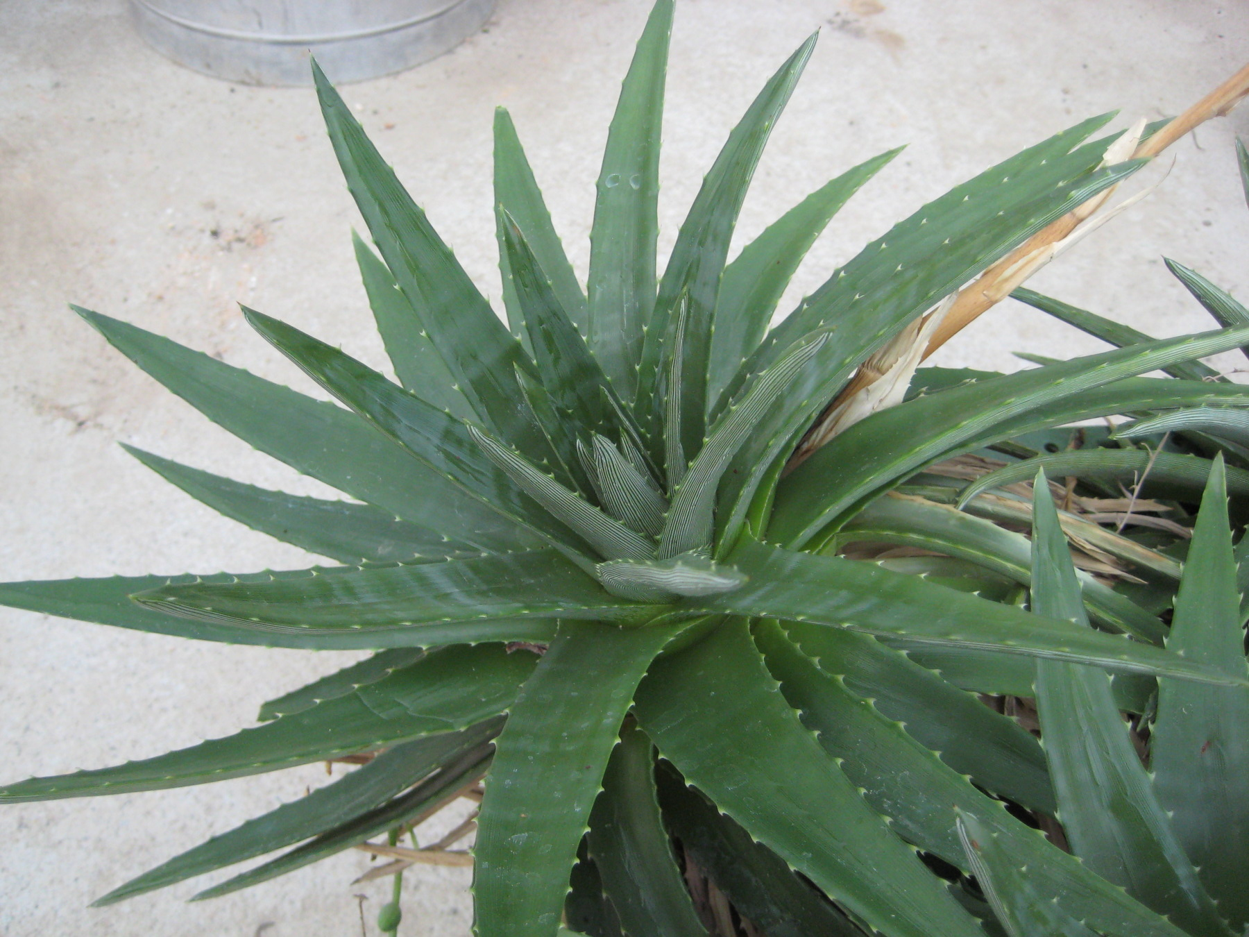 Dyckia brevifolia — in Kultur